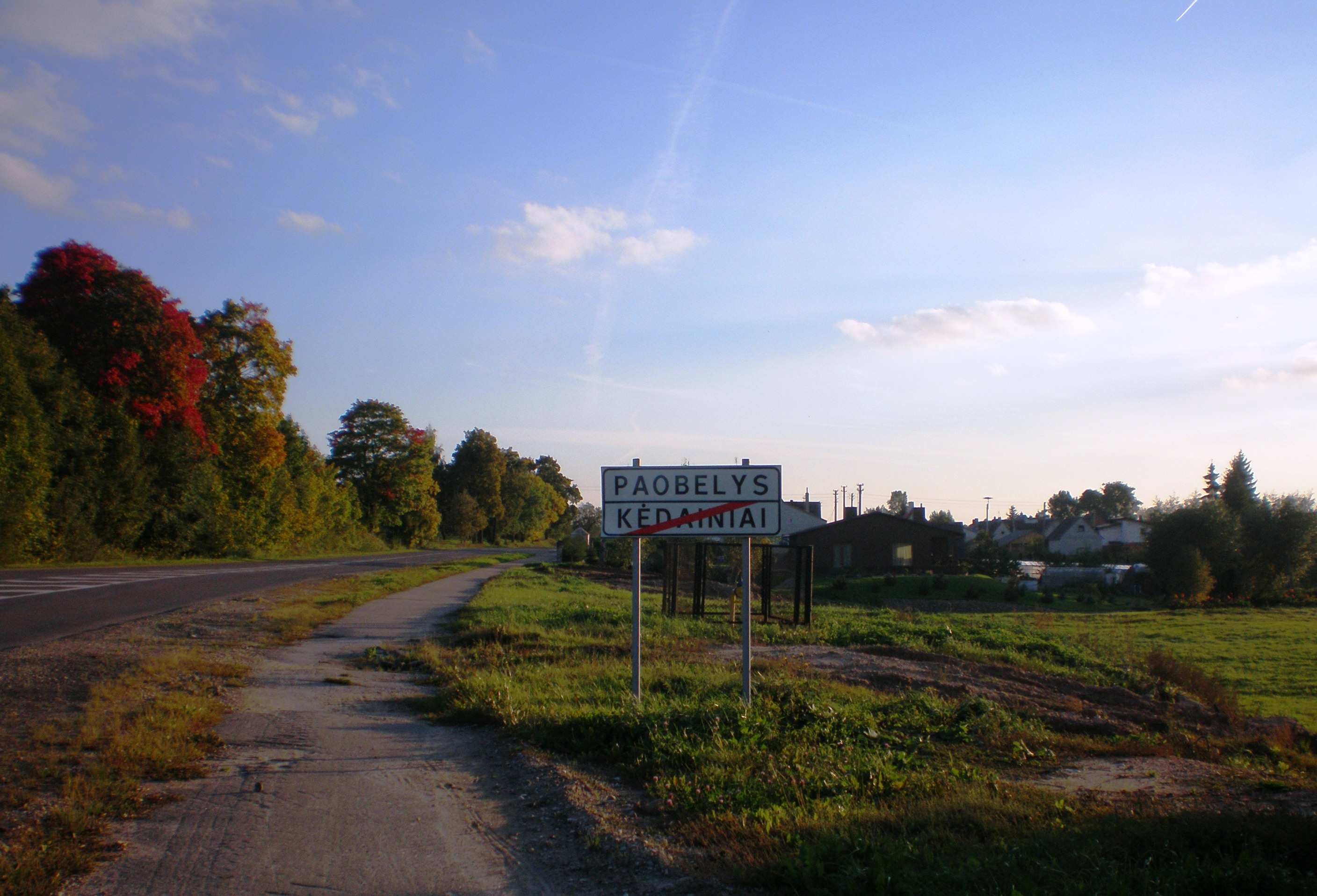 Paobelys, Kėdainiai district, Lithuania